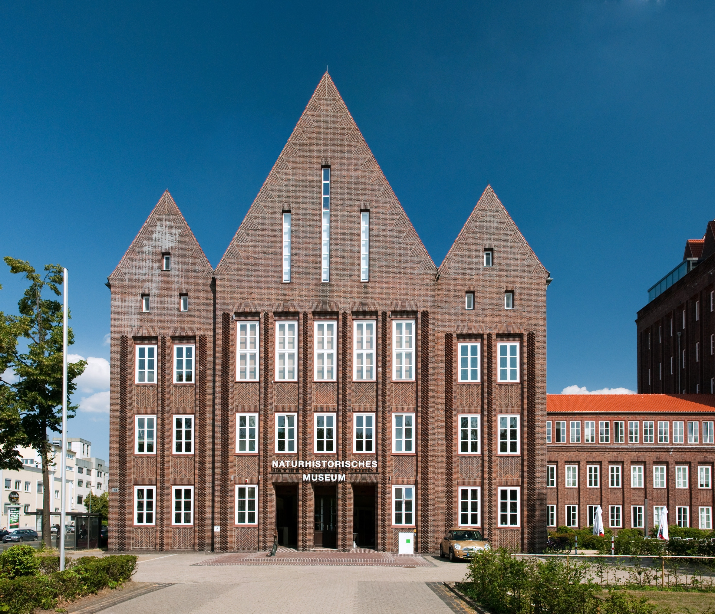 Braunschweig: Staatliches Naturhistorisches Museum